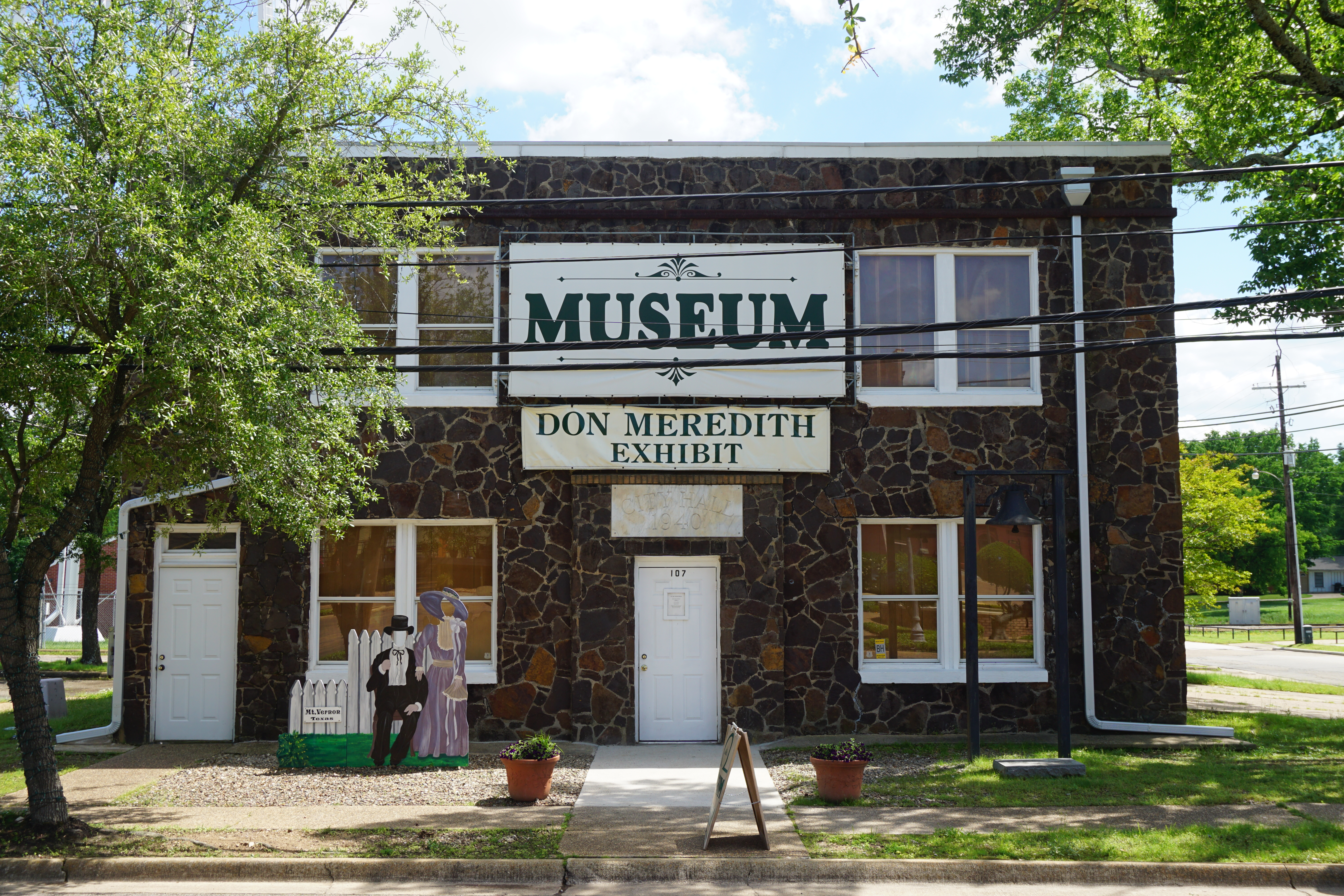 The Old Fire Station Museum in Mount Vernon, Texas (United States).